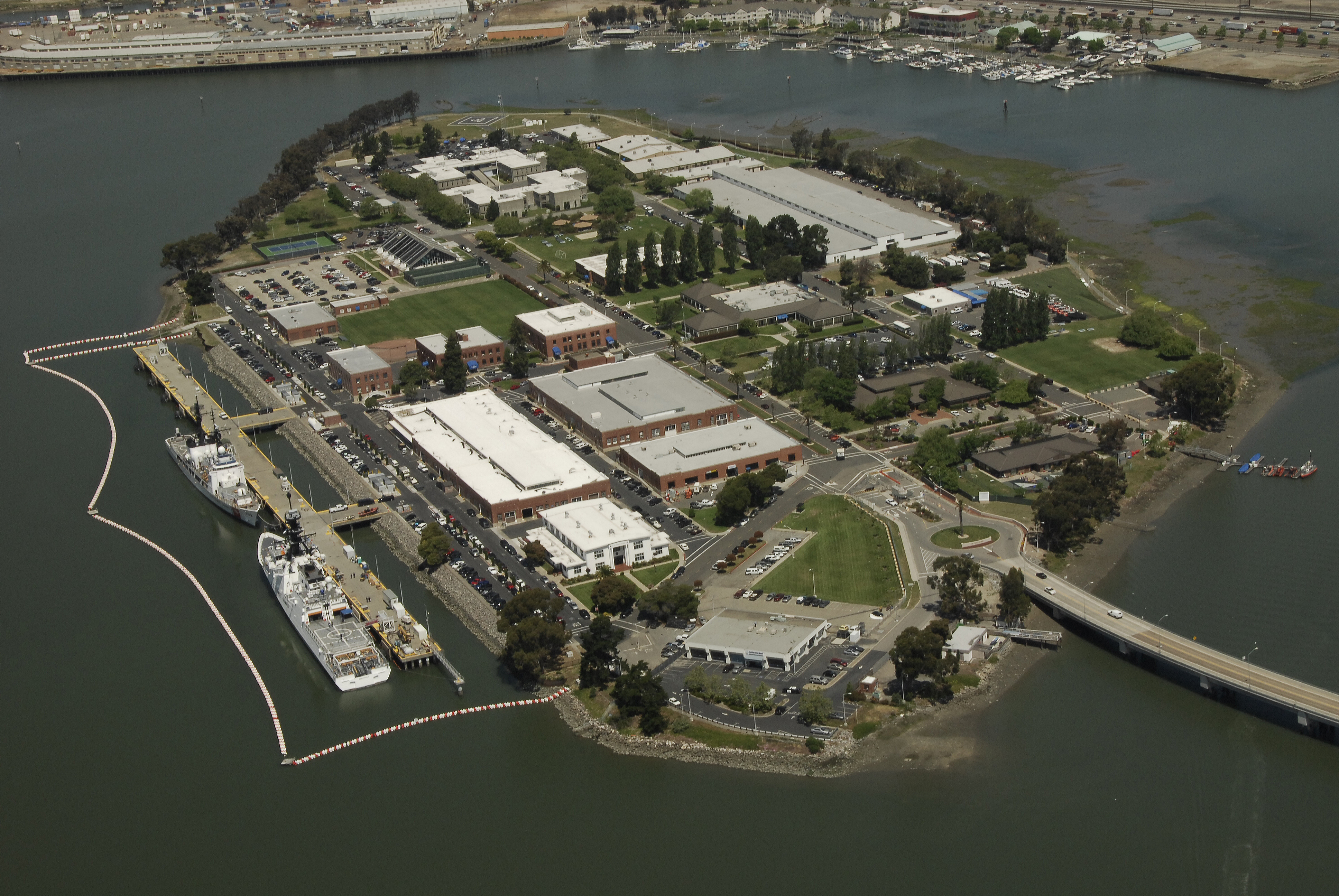 Coast Guard Island is in the Oakland Estuary between Oakland and Alameda, Calif. The 67-acre island is situated in the historic Brooklyn Basin, now known as Embarcadero Cove. The Island supports a number of Coast Guard facilities and personnel, including Integrated Support Command Alameda, and the Pacific Area and Eleventh District commanders. The first National Security Cutter, Bertholf, and three other 378-foot high-endurance cutters are also homeported there.